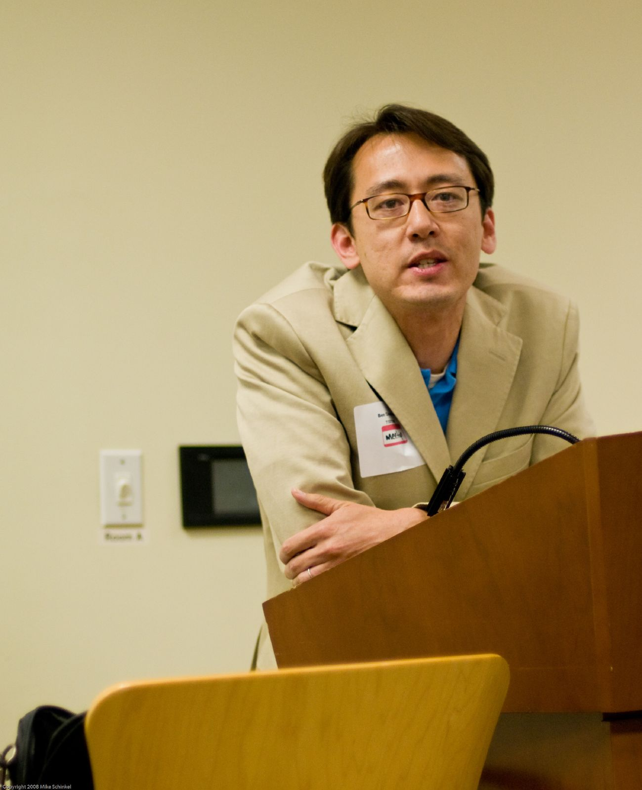 Ben Chestnut of MailChimp telling his Entrepreneur Story at the Atlanta Web Entrepreneurs at the Atlanta Web Entrepreneurs meetup for July 2008.